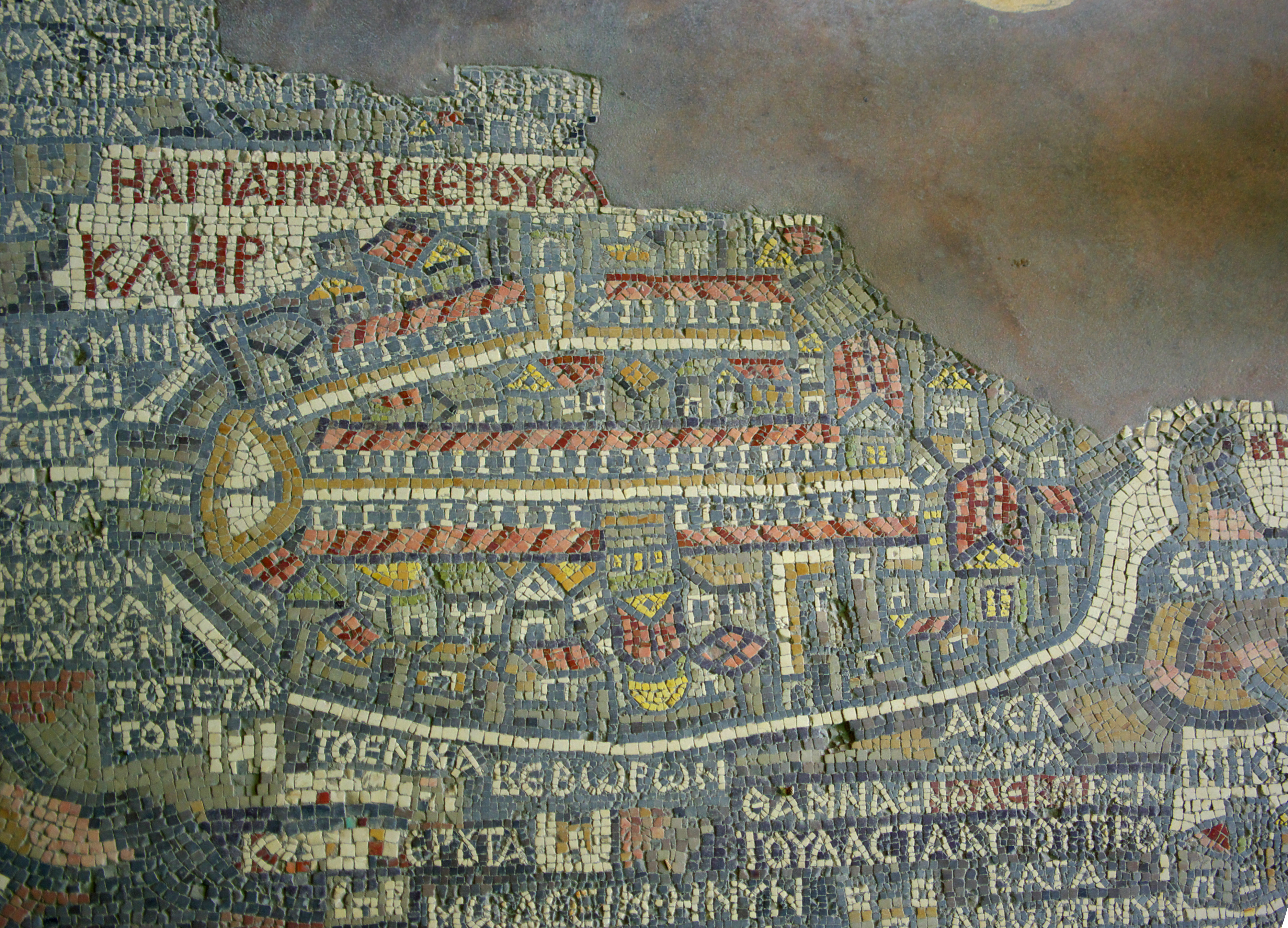 Madaba Map, Jerusalem on the famous mosaic floor